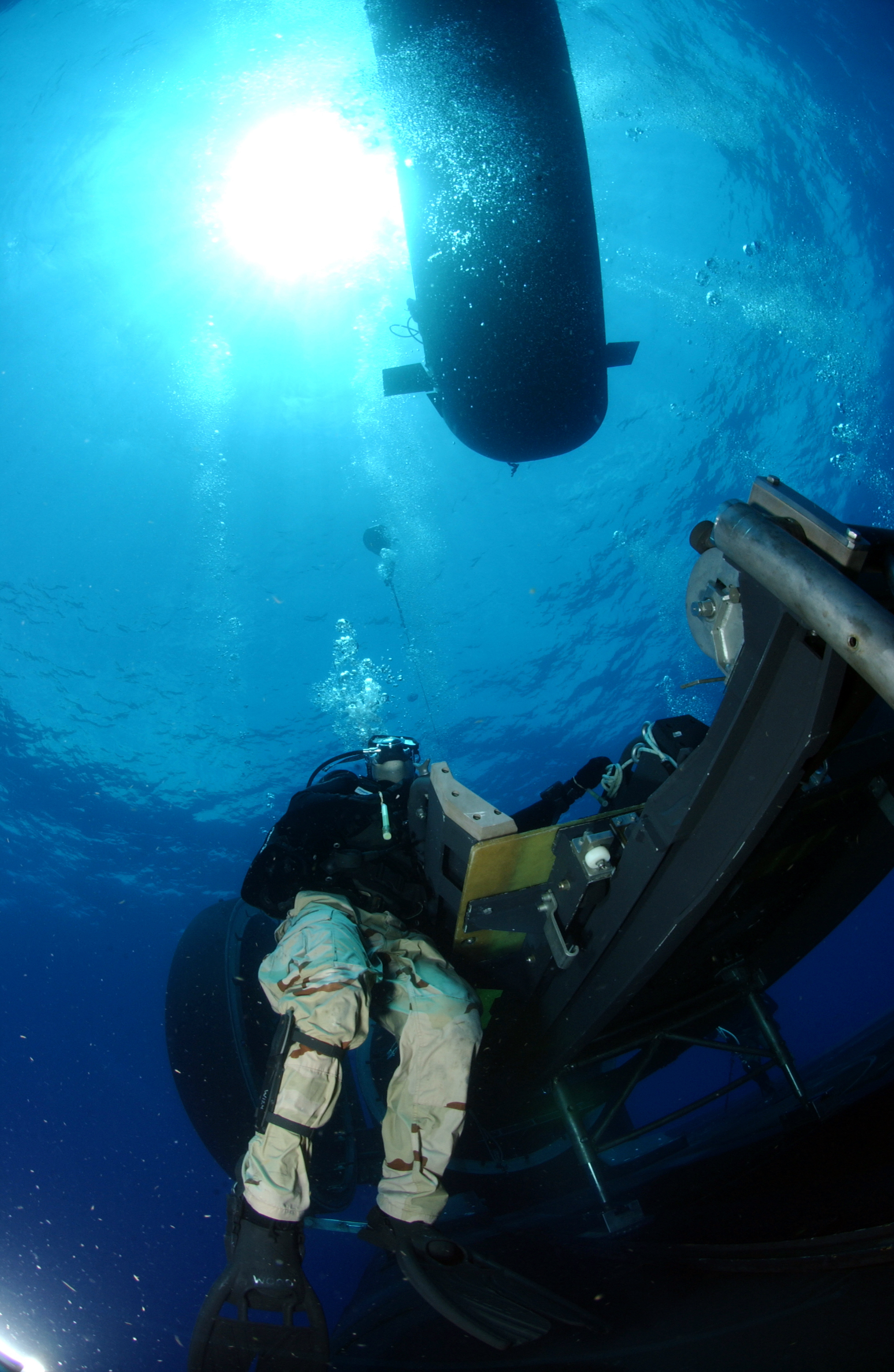 KEY WEST, Fla. (July 27, 2007) A Navy diver stands by to assist a special operator, both from SEAL Delivery Team (SDV) 2, with SDV operations with the nuclear-powered submarine USS Florida (SSGN 728) for material certification. Material certification allows operators to perform real-world operations anytime, anywhere. U.S. Navy photo by Senior Chief Mass Communication Specialist Andrew McKaskle (Released)